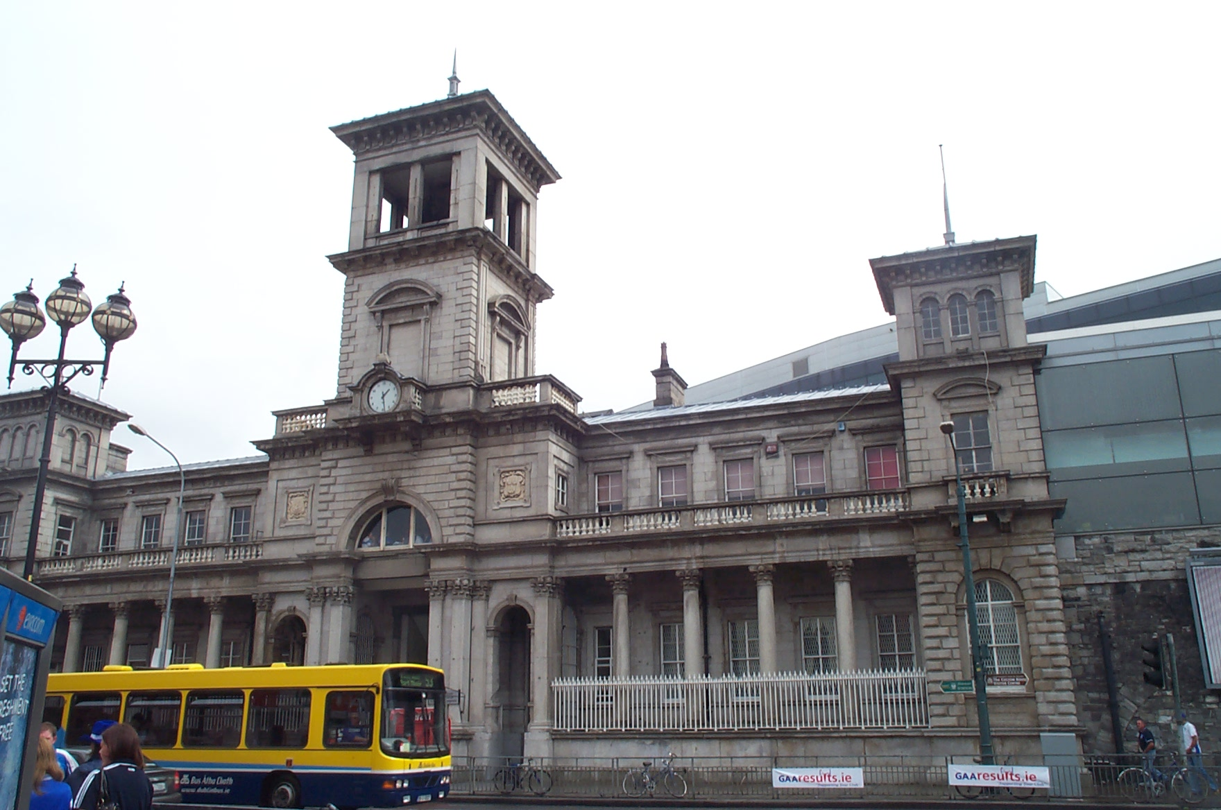 Dublin Connolly railway station